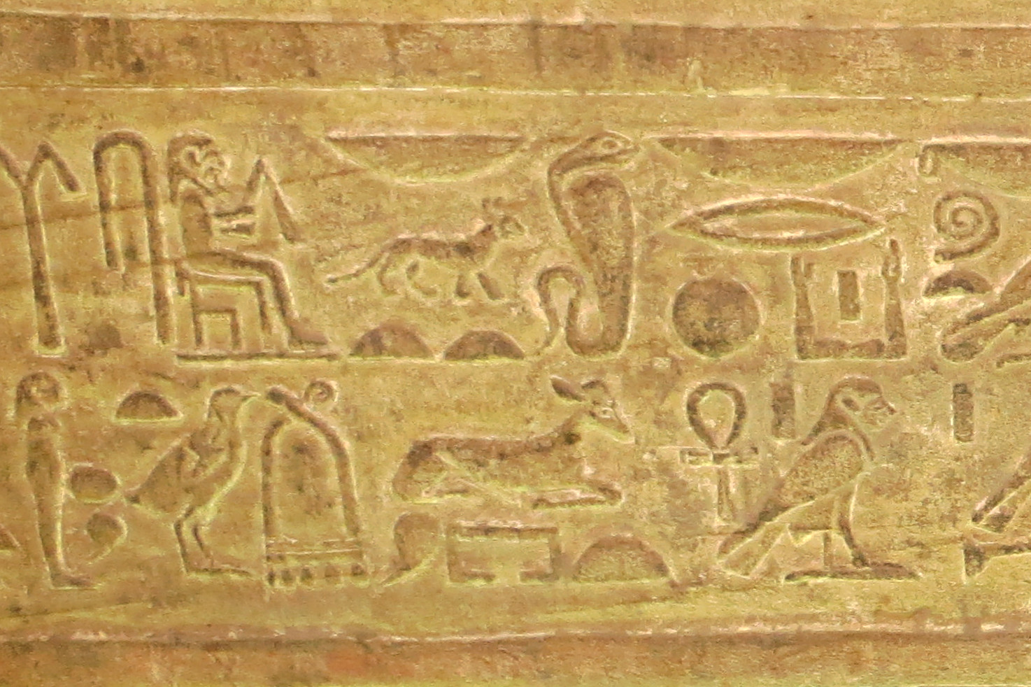 Reliefs in Edfu Temple